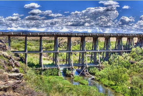 Rattlesnake Trestle on the Southern San Luis Valley Railroad, near Blanca, Colorado. Additional Bridge Photos and a Bridge Blog at